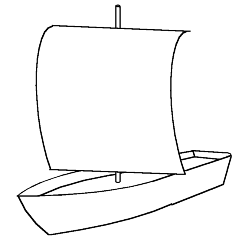 Square Sails. the figure is drawn by Yosemite.